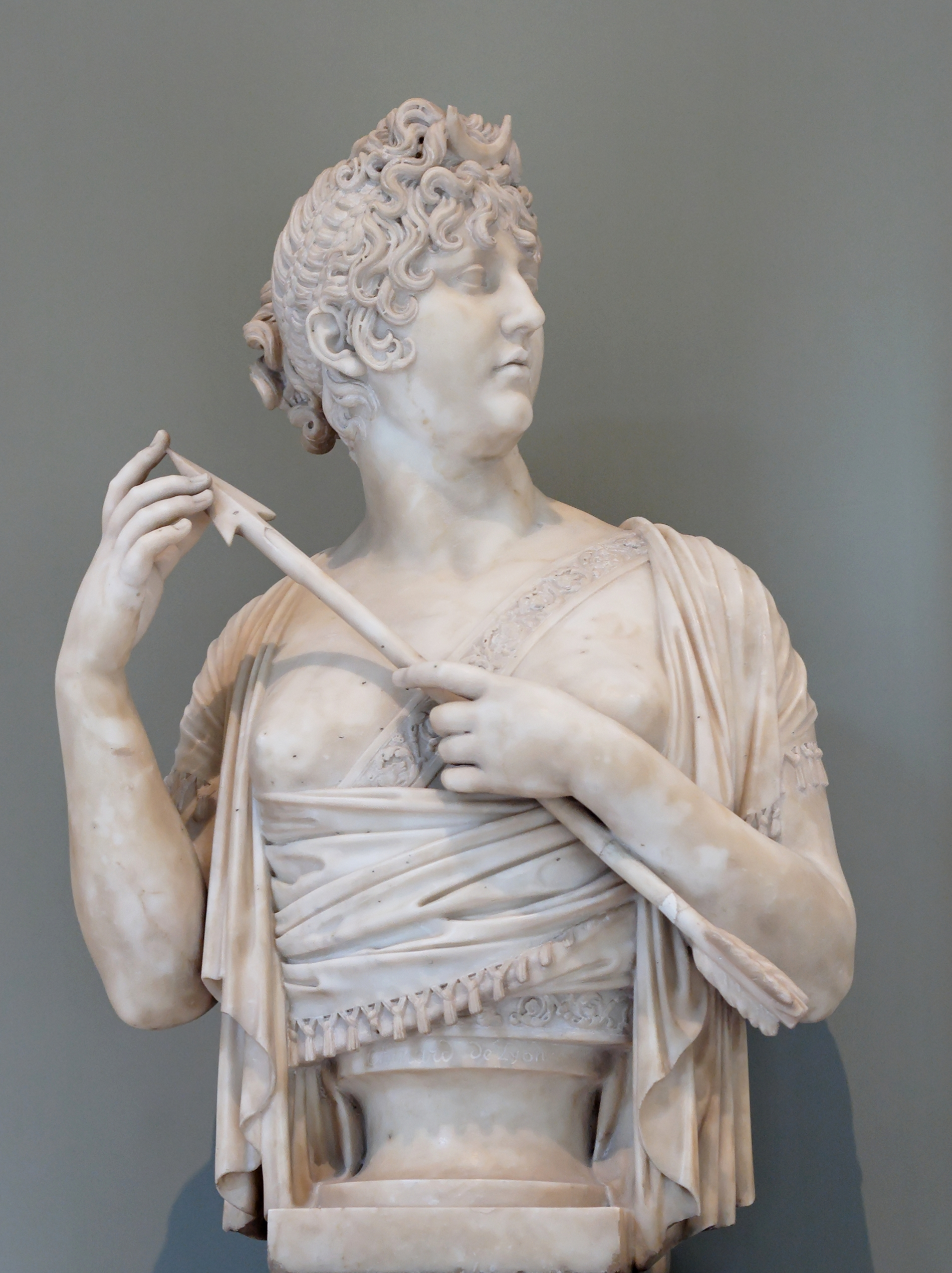 Depicted person: Mrs. de Verninac (sister of Eugène Delacroix) See also Category:Portrait of Madame de Verninac by David (Louvre RF 1942-16).